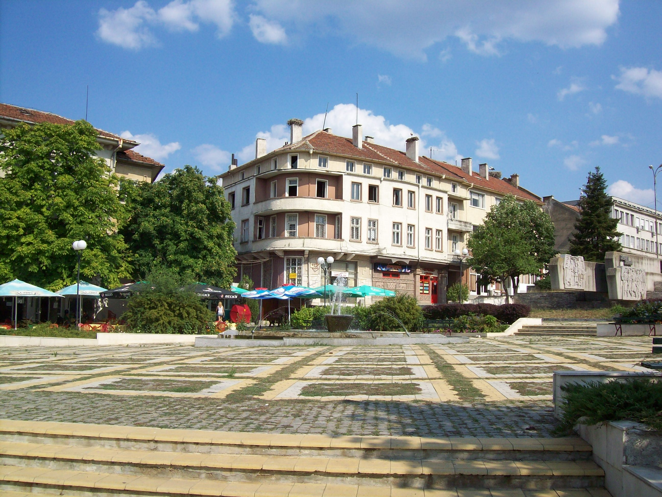 Centar Square 1 Sredets